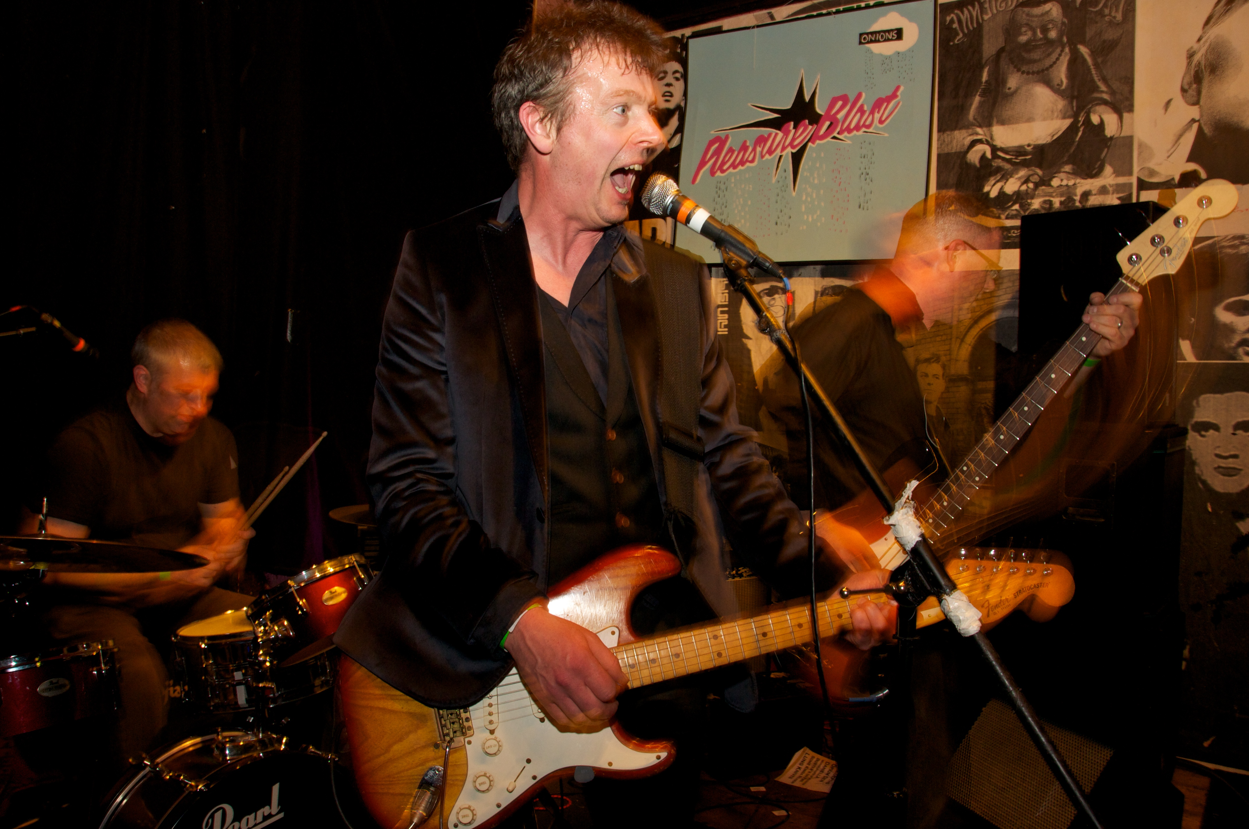 Inca Babies. Un-Peeled - a Tuff Life Boogie event Gullivers, Manchester October 2012 New neate photos facebook page with more Un-Peeled scenes. © All Rights Reserved. More neate photos